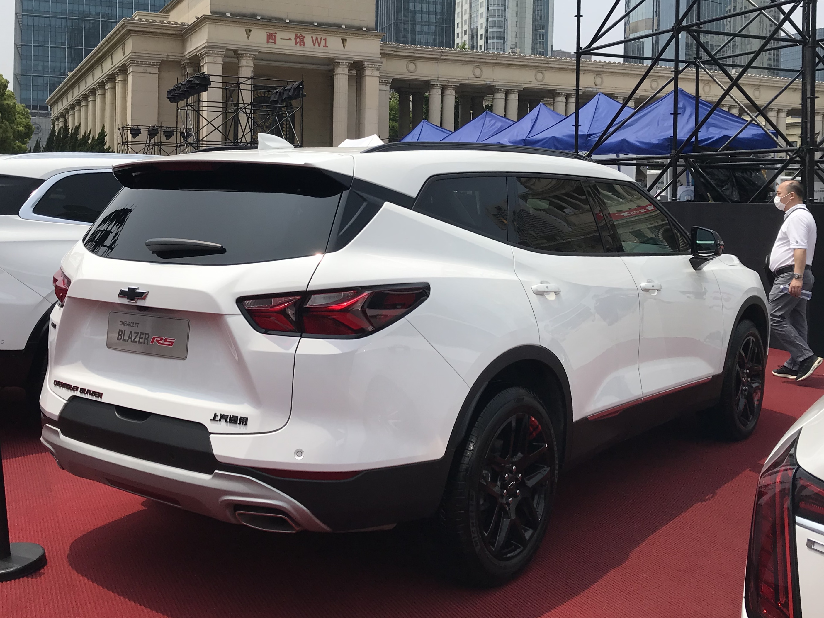 Chevrolet Blazer in China